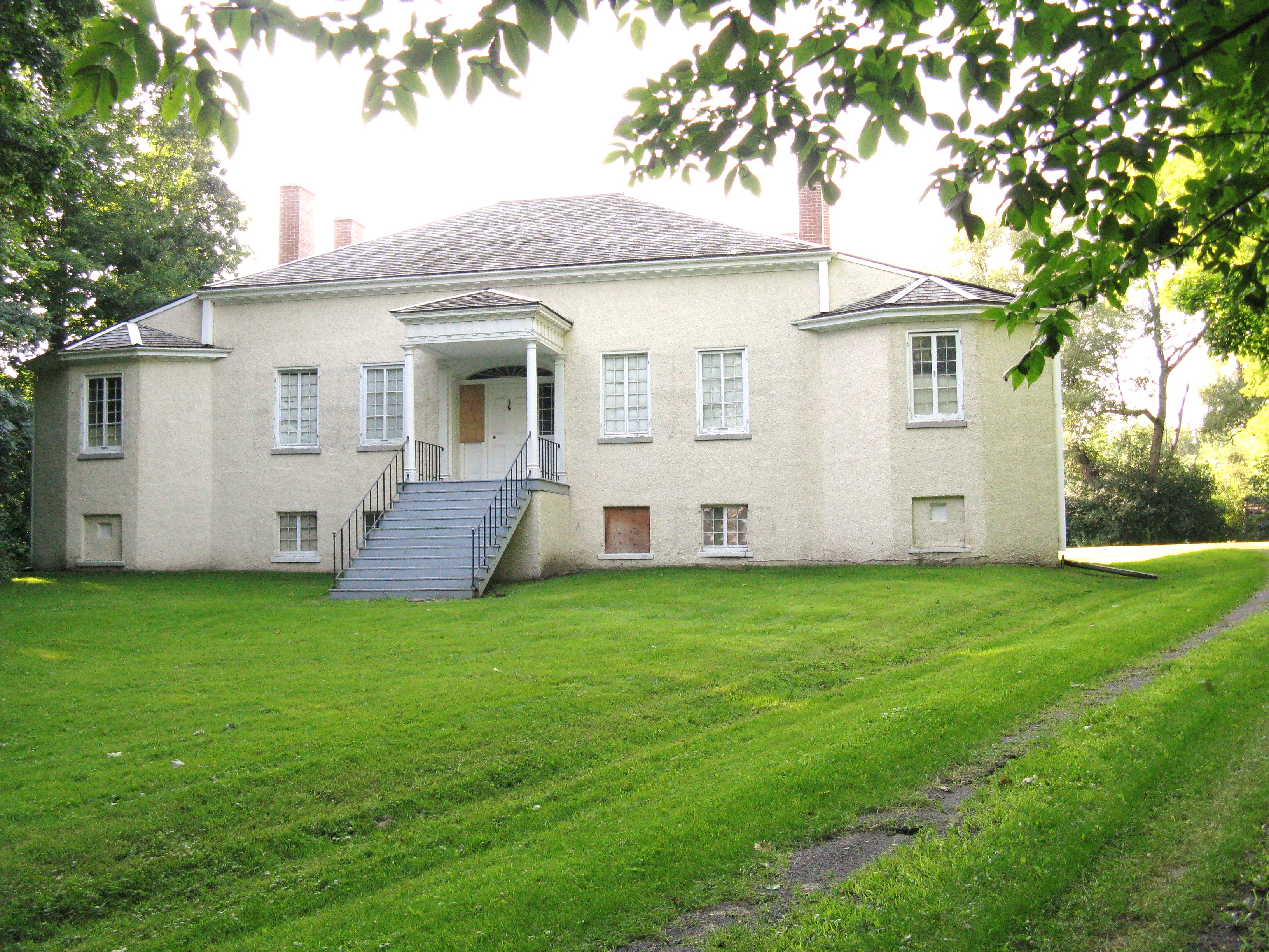 Inverarden House National Historic Site, Cornwall, Ontario